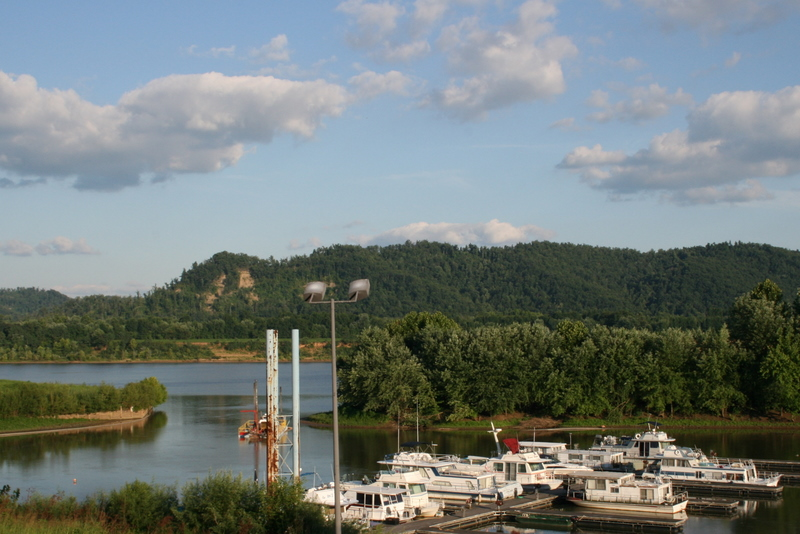 Shawnee State Park Marina (July 2007), Friendship, Scioto County, Ohio, United States